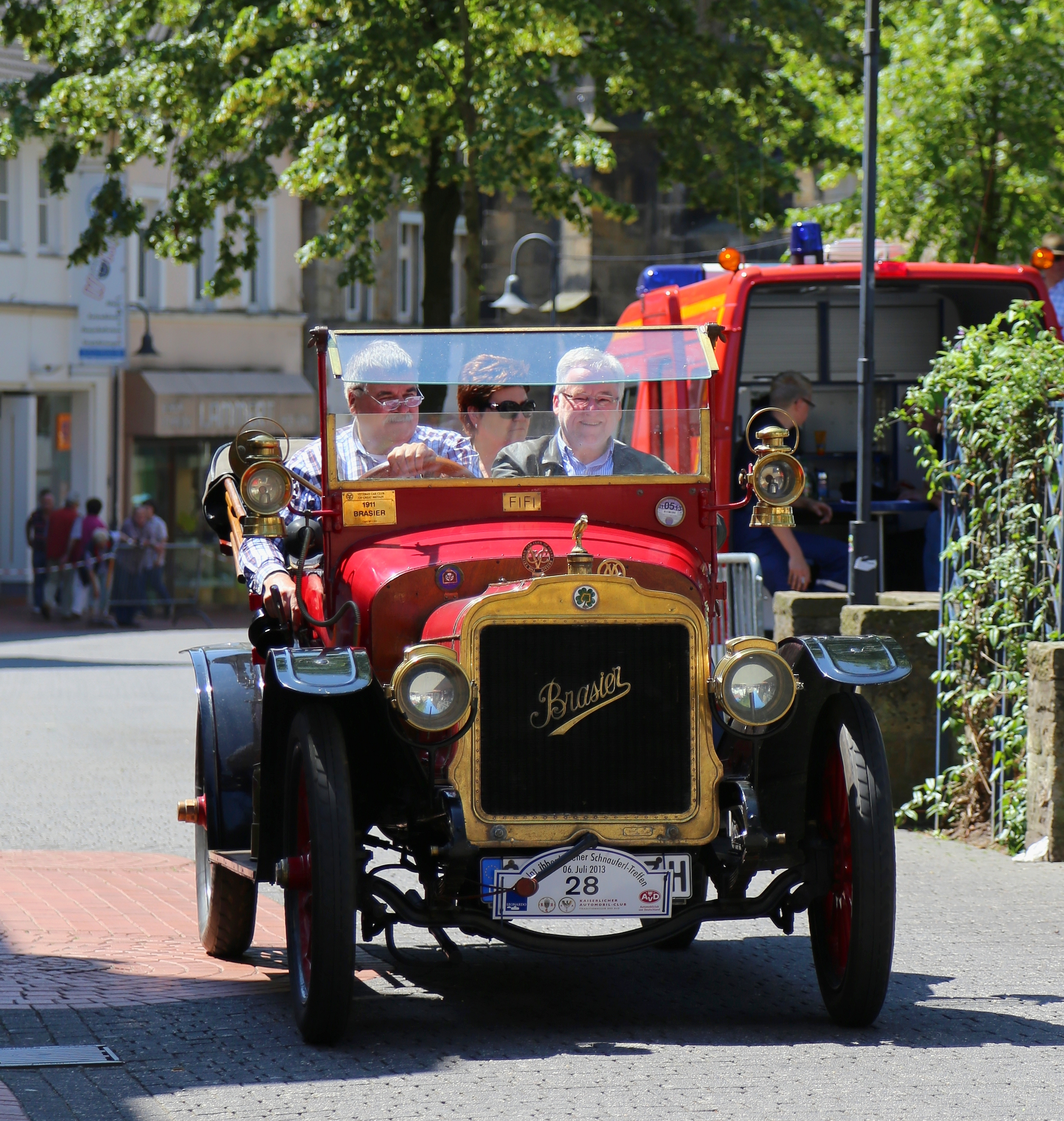 A 1911 Brasier at the 23rd International Ibbenbüren Vintage Automobiles Meeting (23. Internationales Ibbenbürener Schnauferl-Treffen) in Ibbenbüren, Kreis Steinfurt, North Rhine-Westphalia, Germany. Picture shows the traditional Schnauferl Parade through the city centre – here on Market Street (Marktstraße).